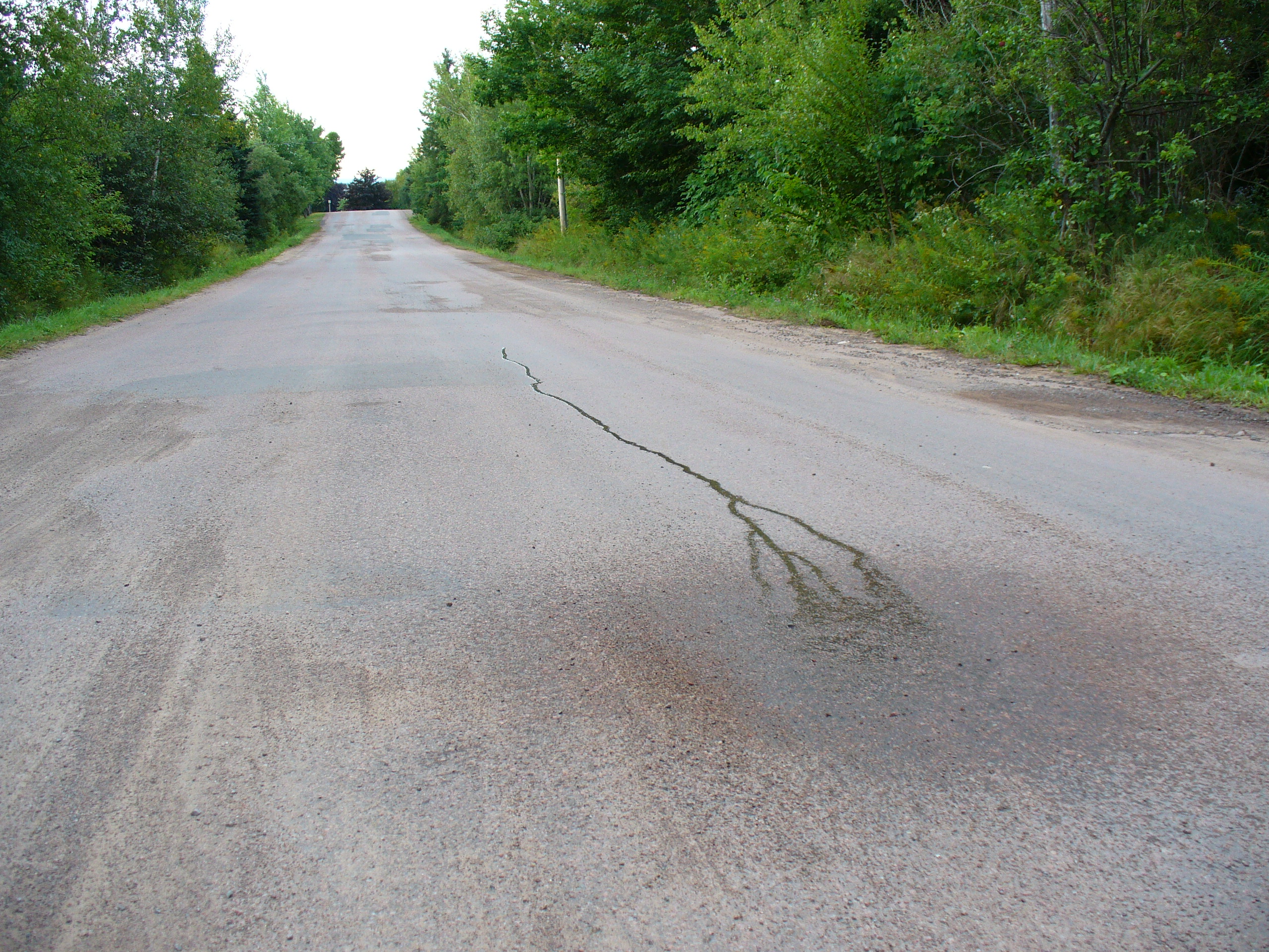 Poured water running "uphill"